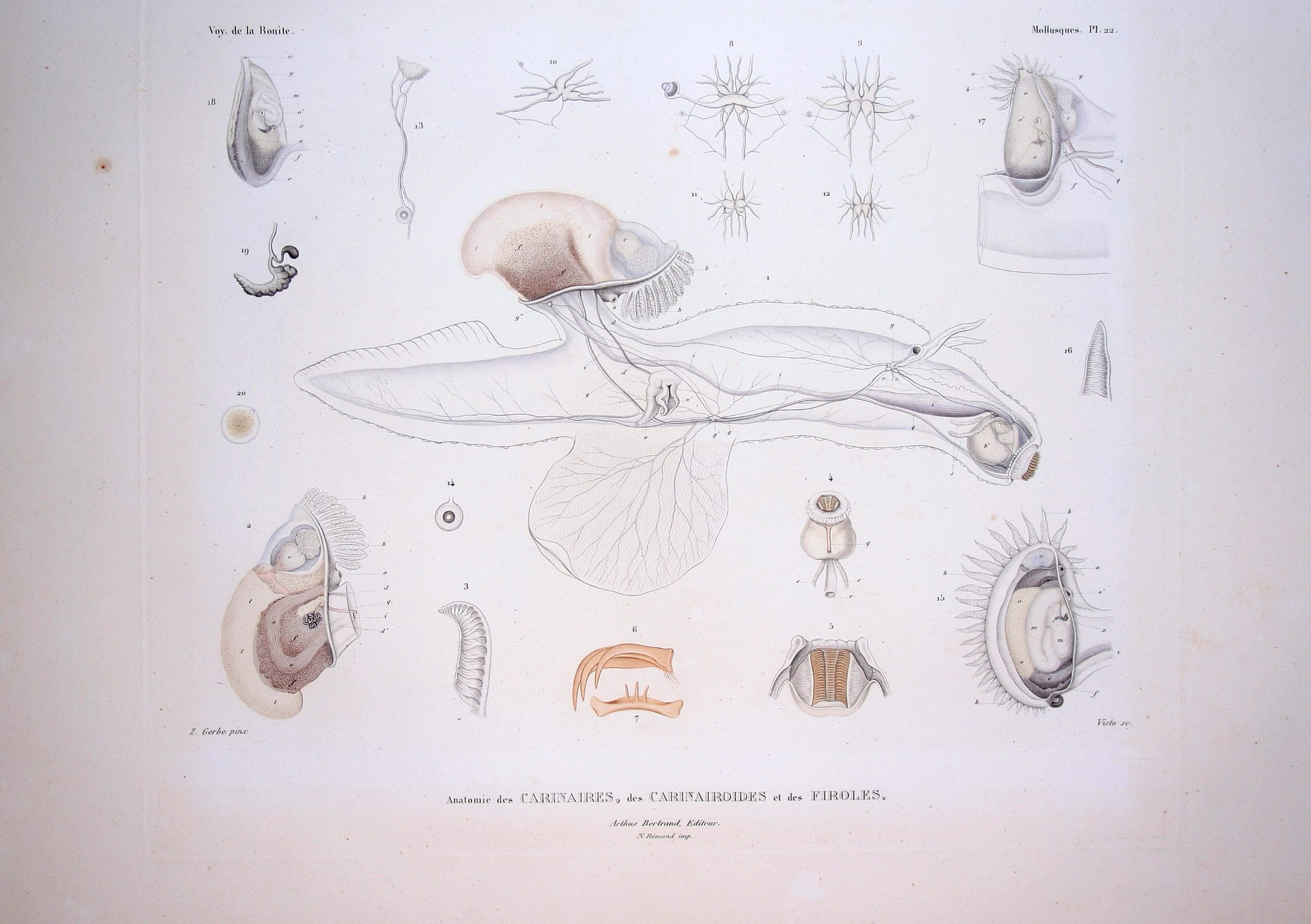 Zoology (molluscs)